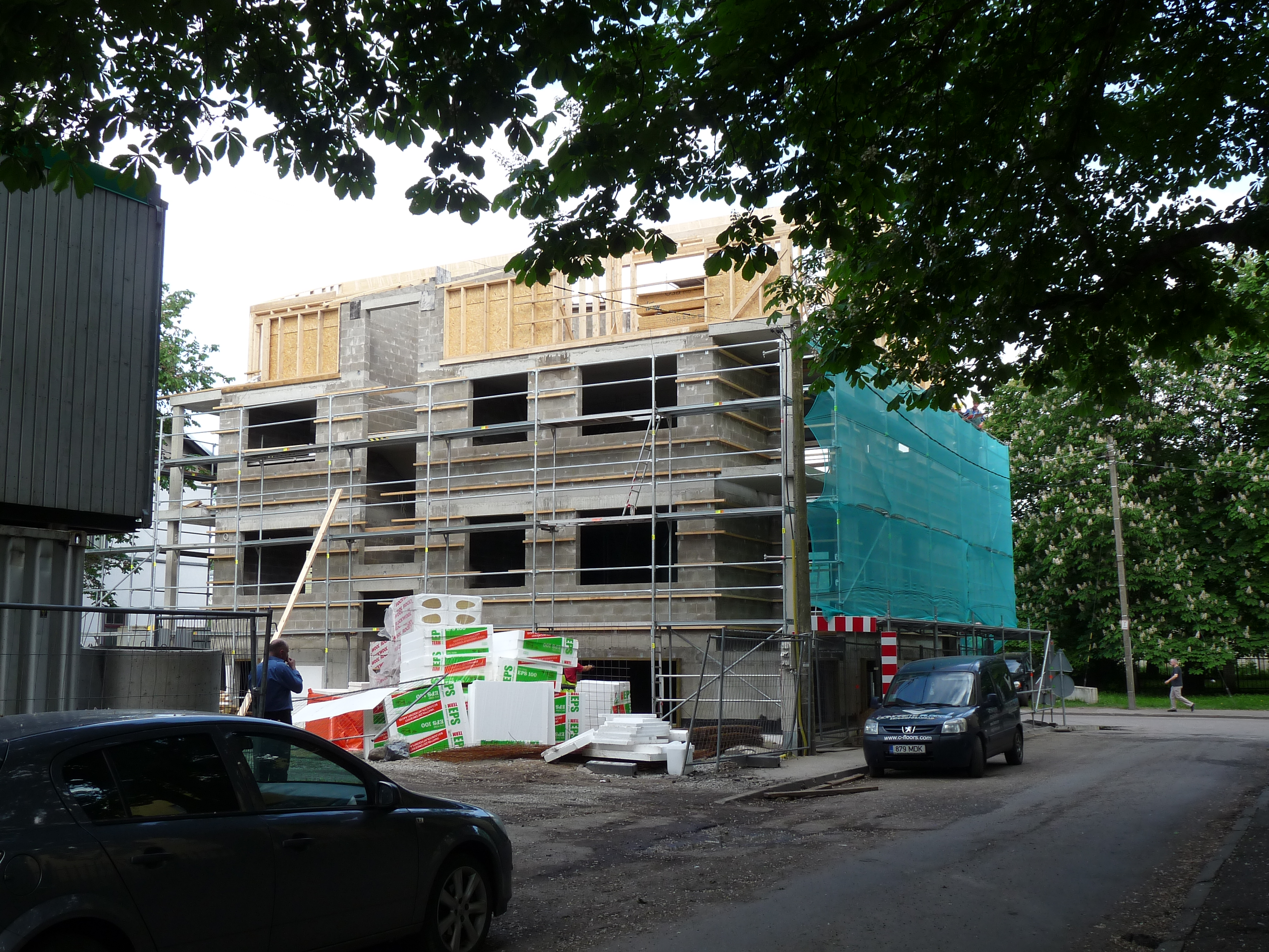 New apartments in Kalamaja